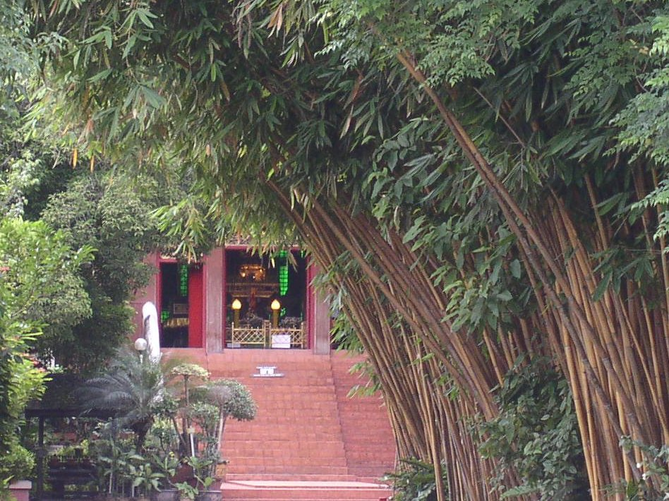 The way to the Haw Phra, under the Golden Bamboo (Bambusa vulgaris) at Wat Phra Kaew, Chiang Rai